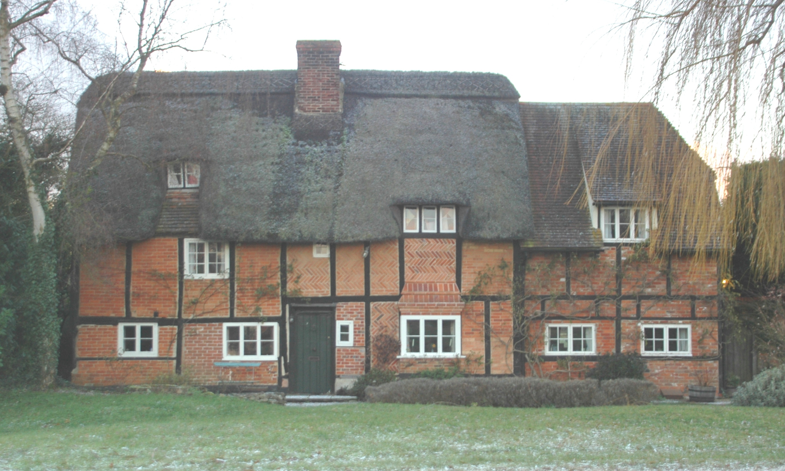 Thatched cottage with brick nogging at Marsh Baldon, Oxfordshire. Five panels of this timber framed house have opus spicatum (or herring-bone) brick infill.